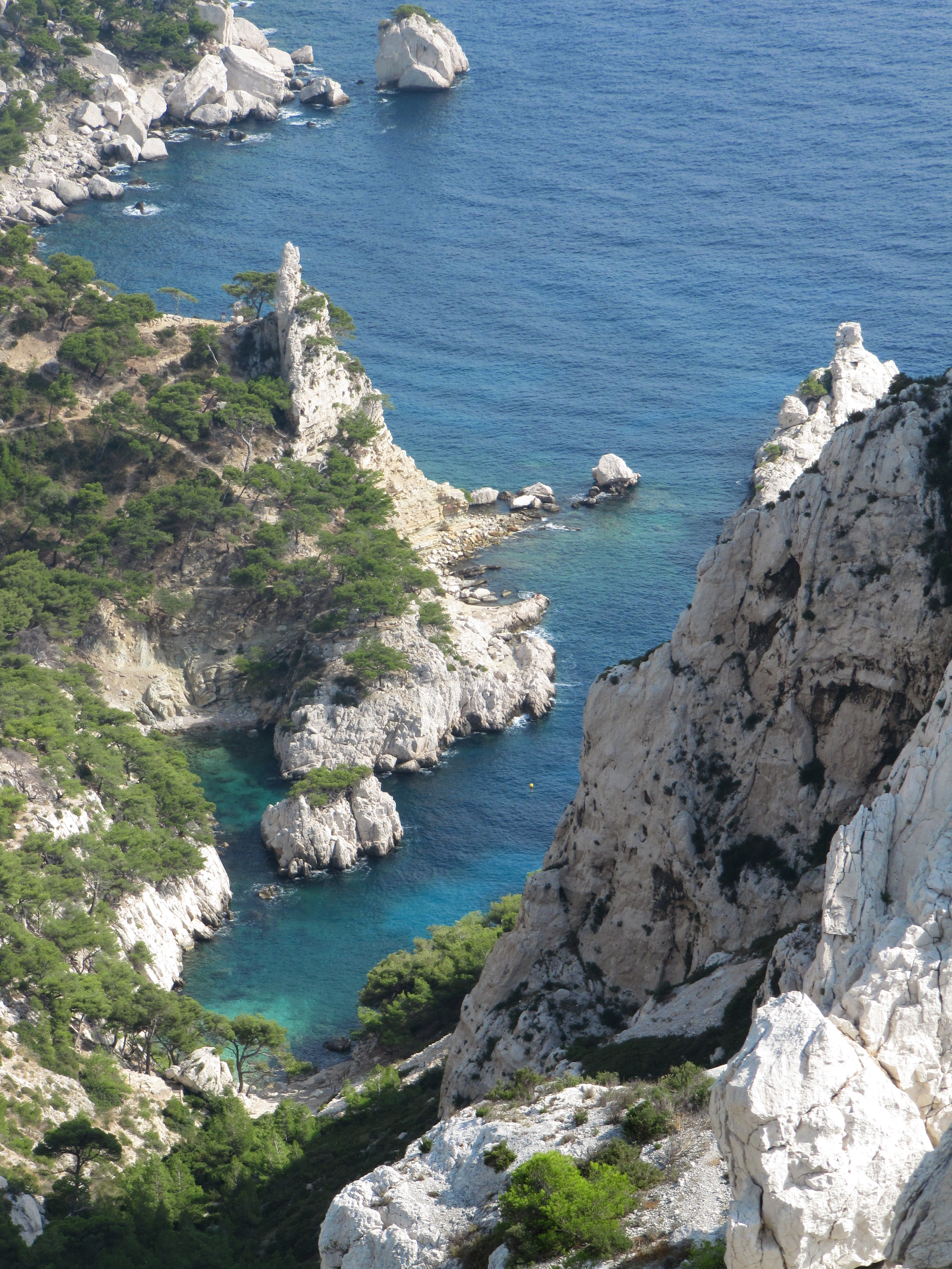 Calanque de Sugiton. France.